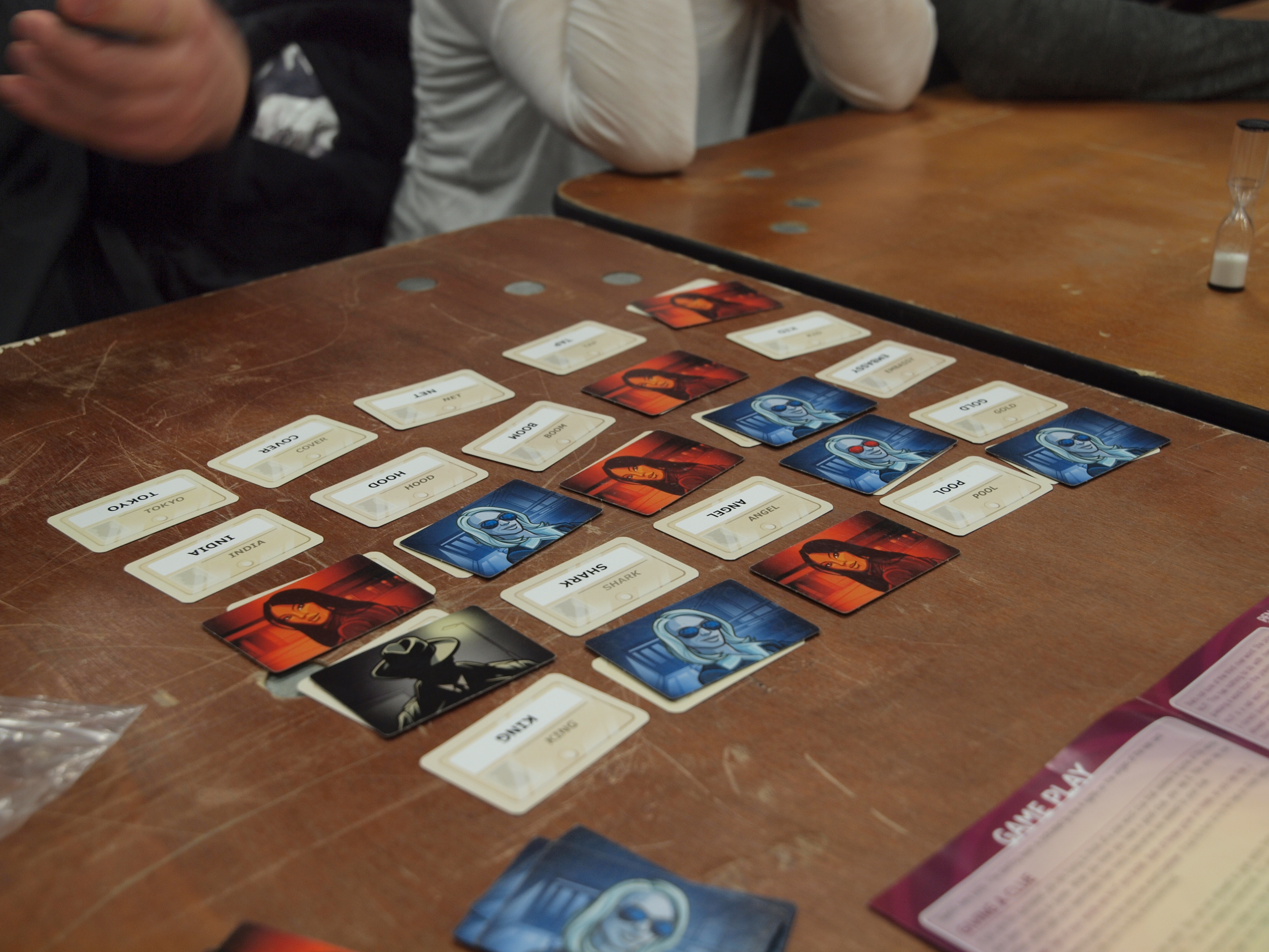 A game of Codenames being played at the annual board game festival of Finland in Helsinki, Finland.